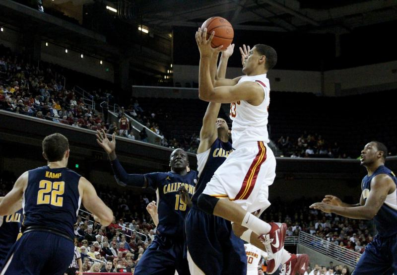 Garrett Jackson (Shotgun Spratling/Neon Tommy)